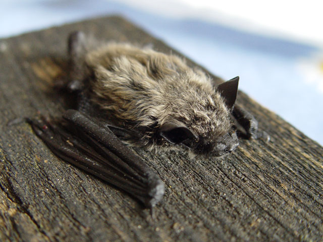 Kuhl's pipistrelle bat, pup (Pipistrellus kuhlii)